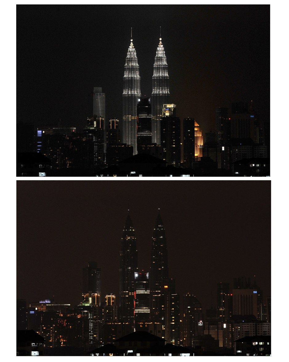 Kuala Lumpur,24/03/2013. Malaysia's landmark Petronas Twin Towers seen with the lights on (top) before the Earth Hour and with the lights off (bottom) in Kuala Lumpur. Pix Firdaus Latif